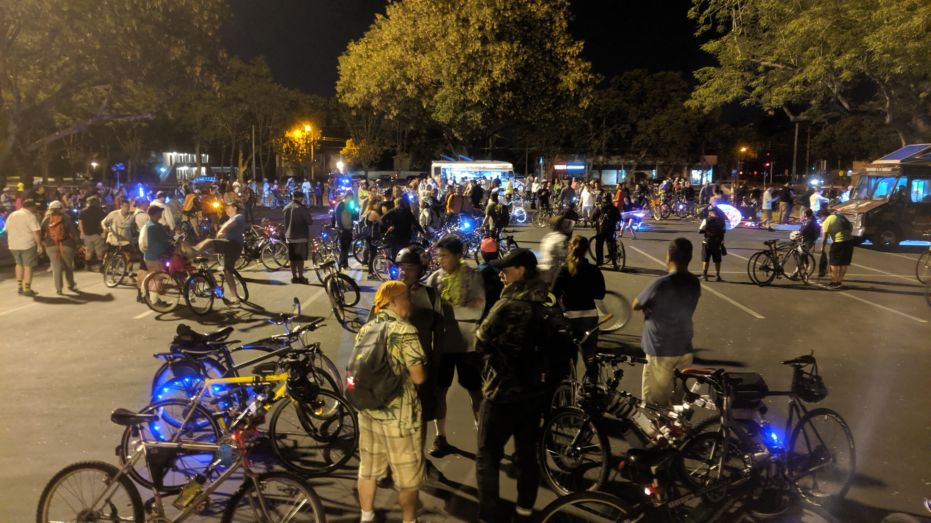 San Jose Bike Party at regroup point at Santa Clara County government center in San Jose on July 19, 2019